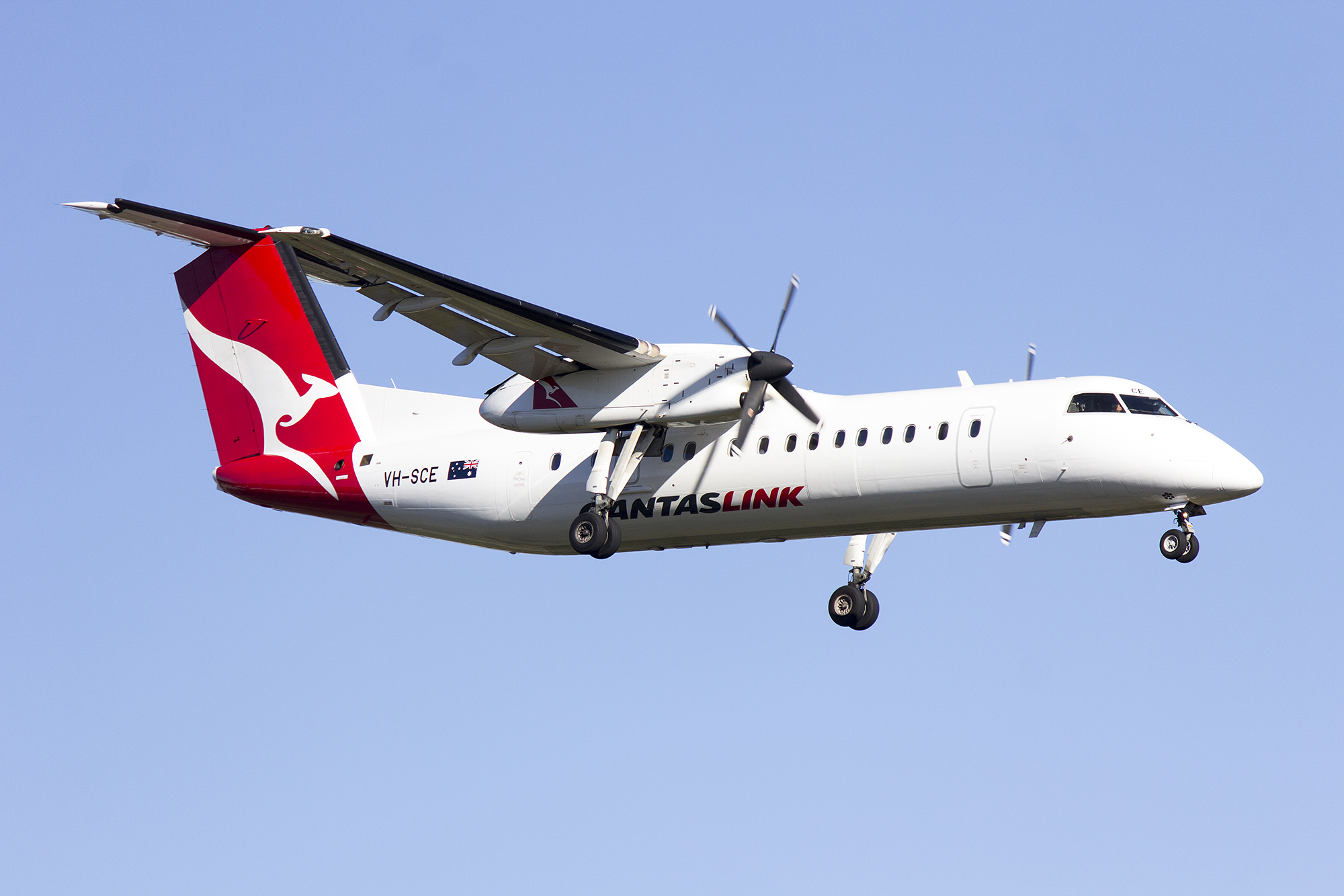 Eastern Australia Airlines (VH-SCE) de Havilland Canada DHC-8-315, in QantasLink livery, on approach to runway 25 at Sydney Airport.